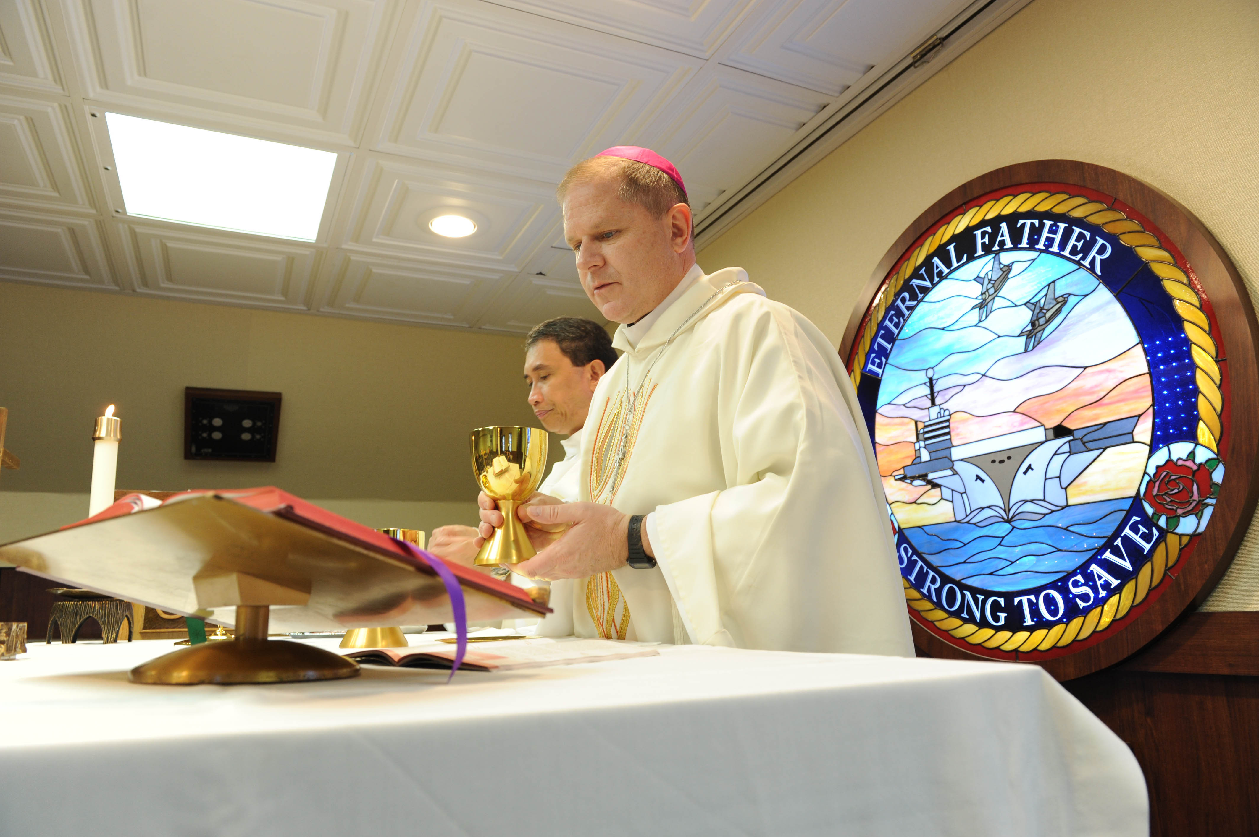 U.S. Navy Reserve retired Cmdr. Robert Coyle, D.D., auxillary bishop of the Archdiocese for the U.S. Military Services, holds mass in the chapel aboard the aircraft carrier USS Theodore Roosevelt (CVN 71). (U.S. Navy photo by Mass Communication Specialist Seaman John M. Drew/Released)